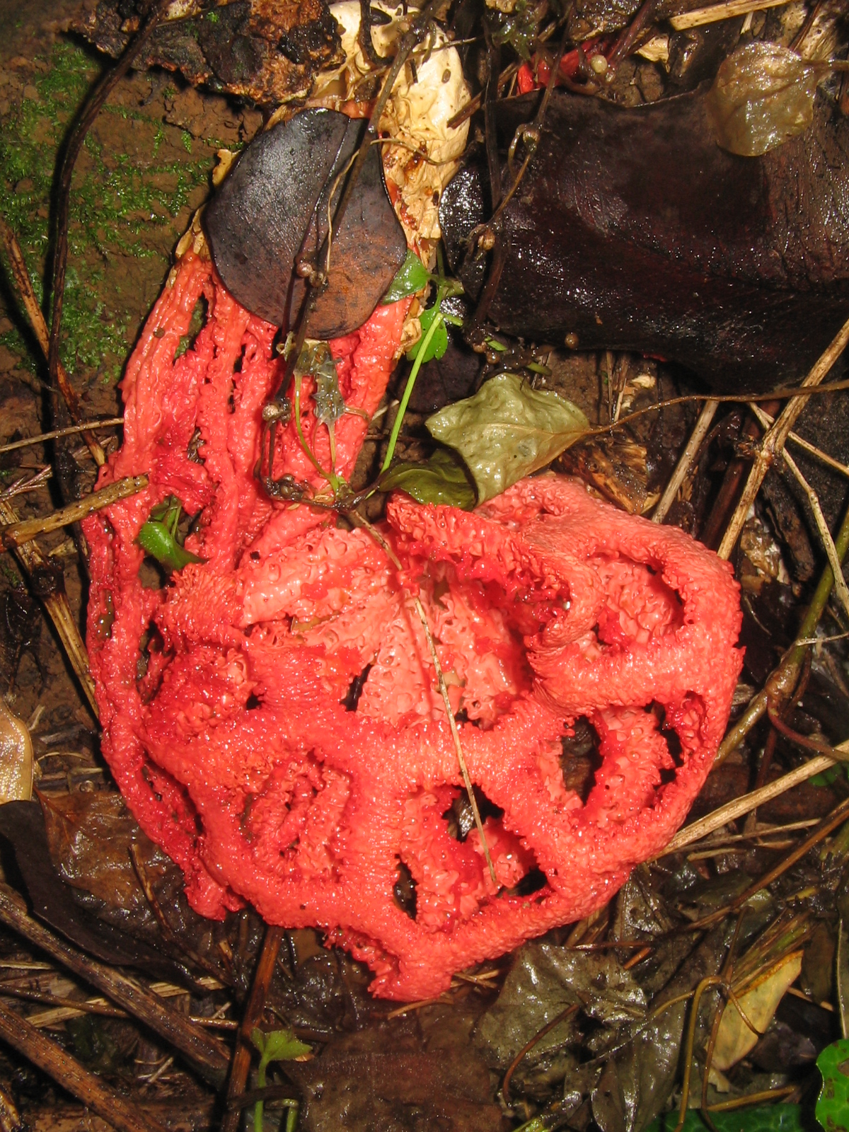 An exemplar of a Clathrus ruber, partly decaying, in a wood in Southern Italy.